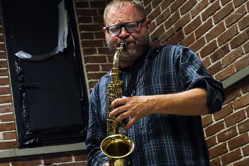 Mikołaj Trzaska at Aarhus Jazz Festival 2016